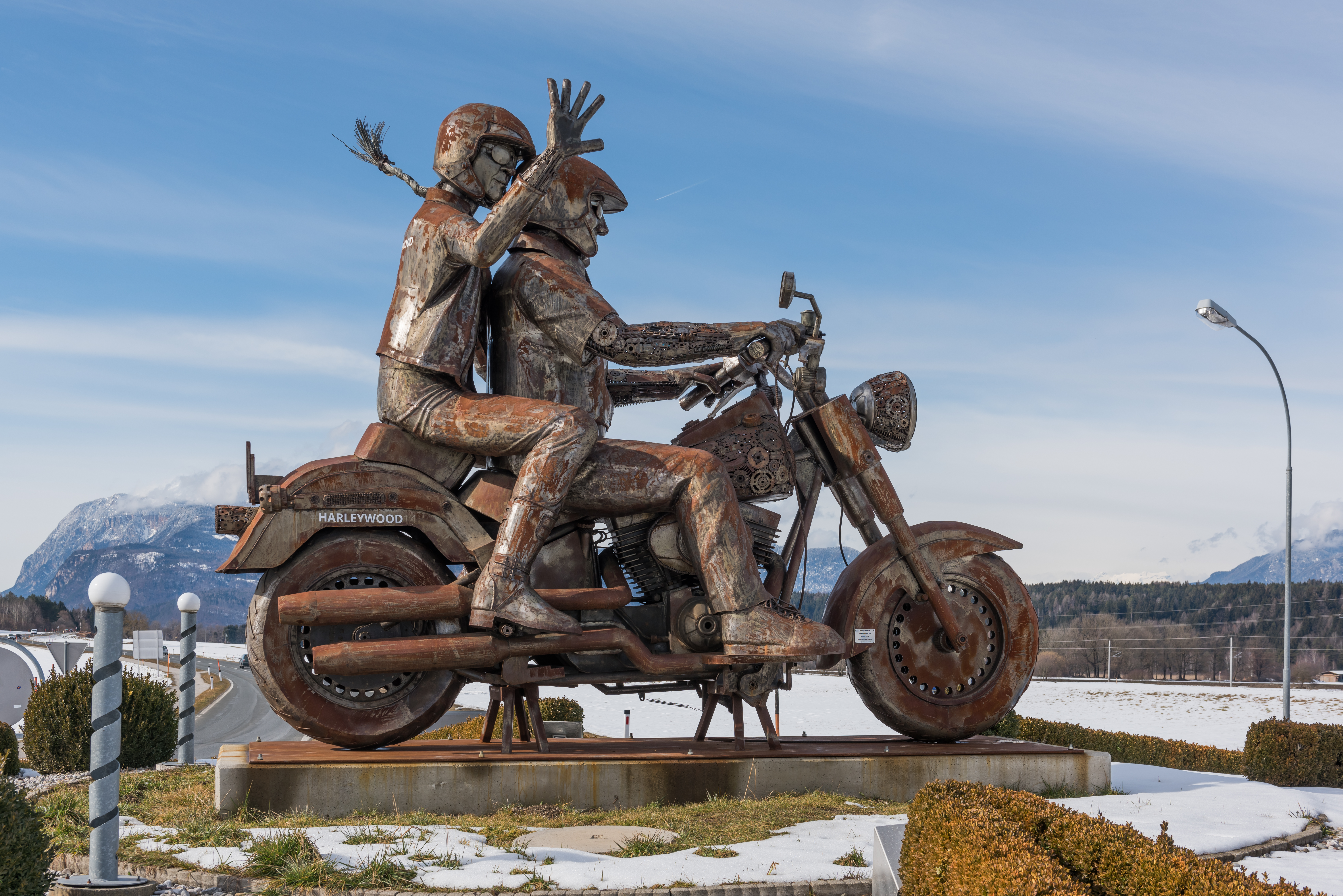 Steel monument of a biking couple on a Harley-Davidson Fat Bob at a roundabout on Rosental Strasse in Faak am See, market town Finkenstein on the Lake Faak, district Villach Land, Carinthia, Austria, EU